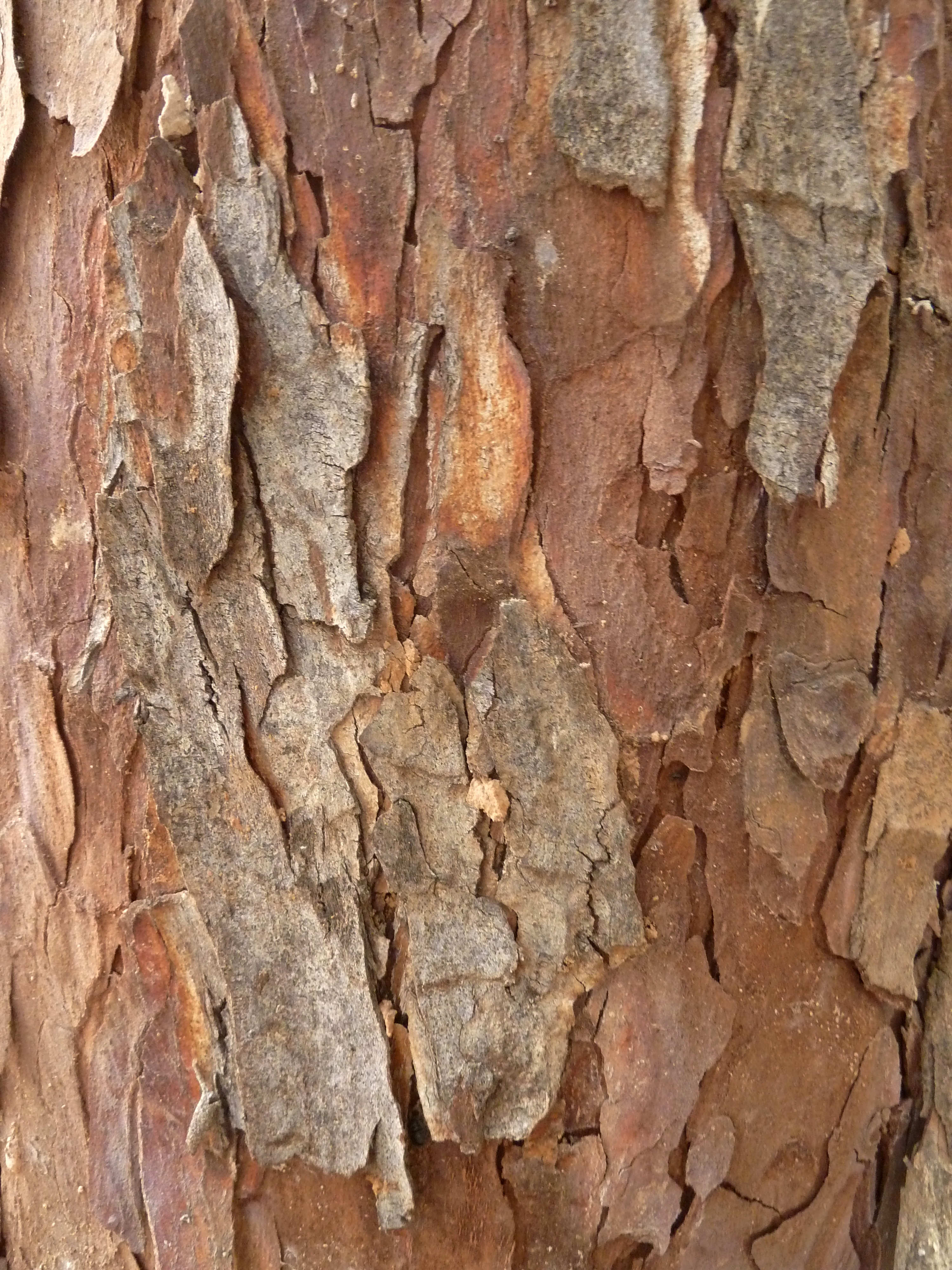 Bark texture of a young Outeniqua yellowwood, growing at the entrance to the Iranian embassy in Pretoria